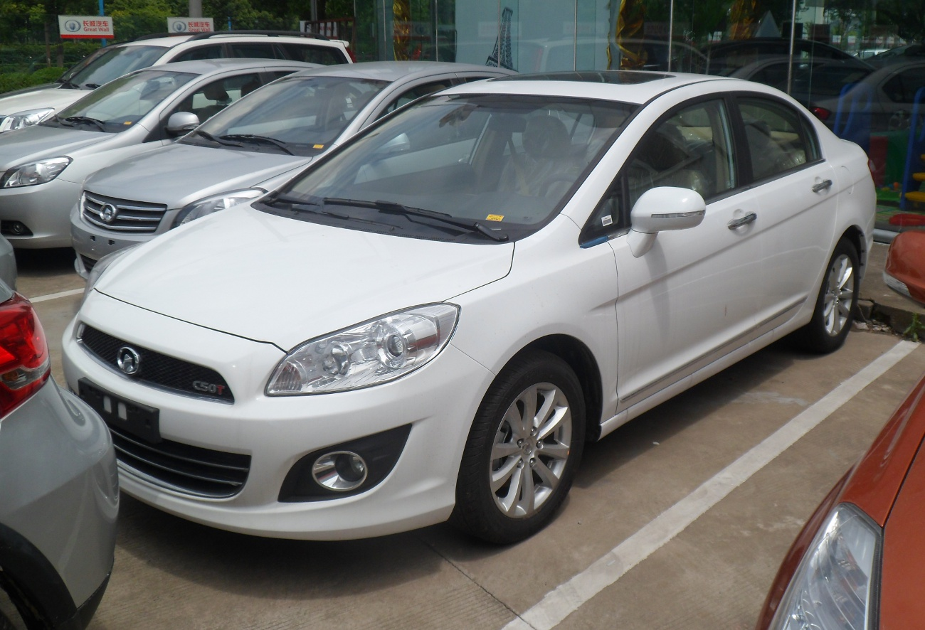 Great Wall Voleex C50 photographed in Shanghai, China.